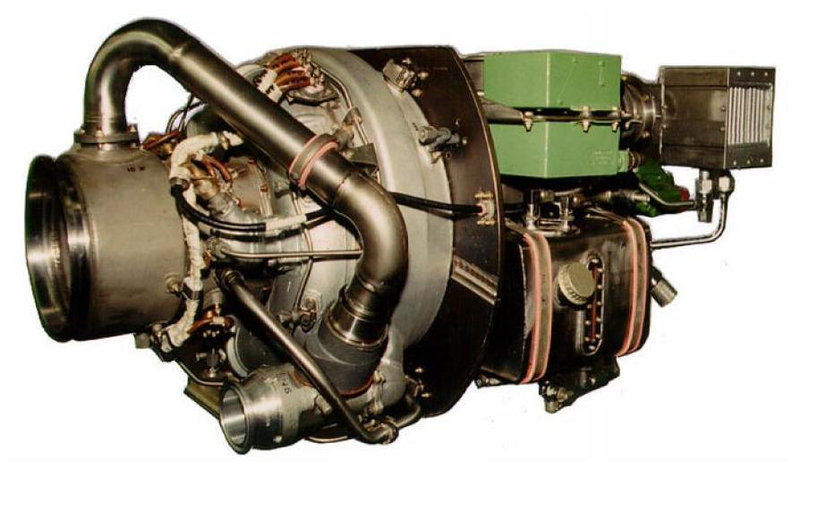 Engine AI9-3B